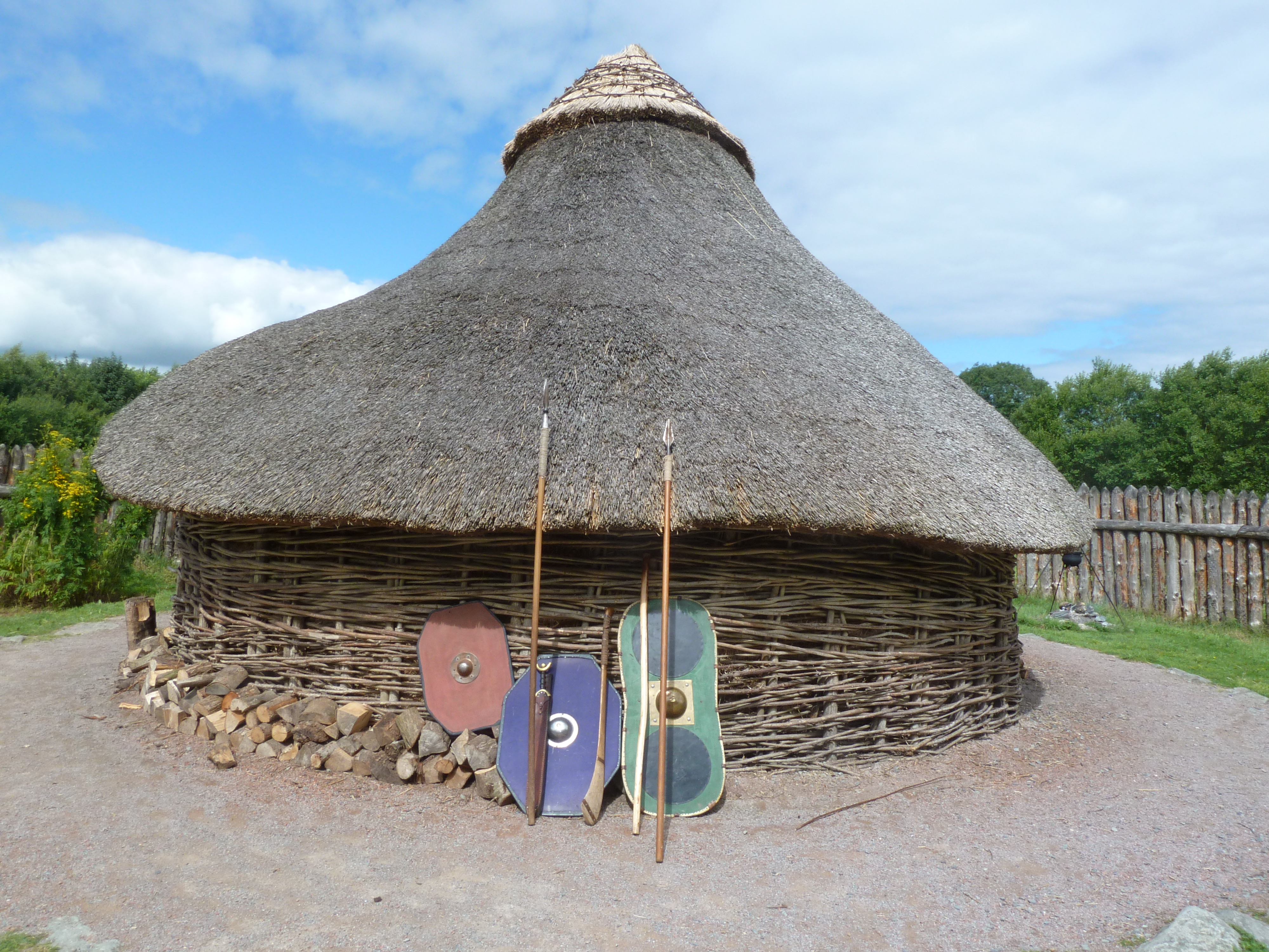 Prehistoric Ireland Iron Age Navan Iron Age roundhouse reconstruction.